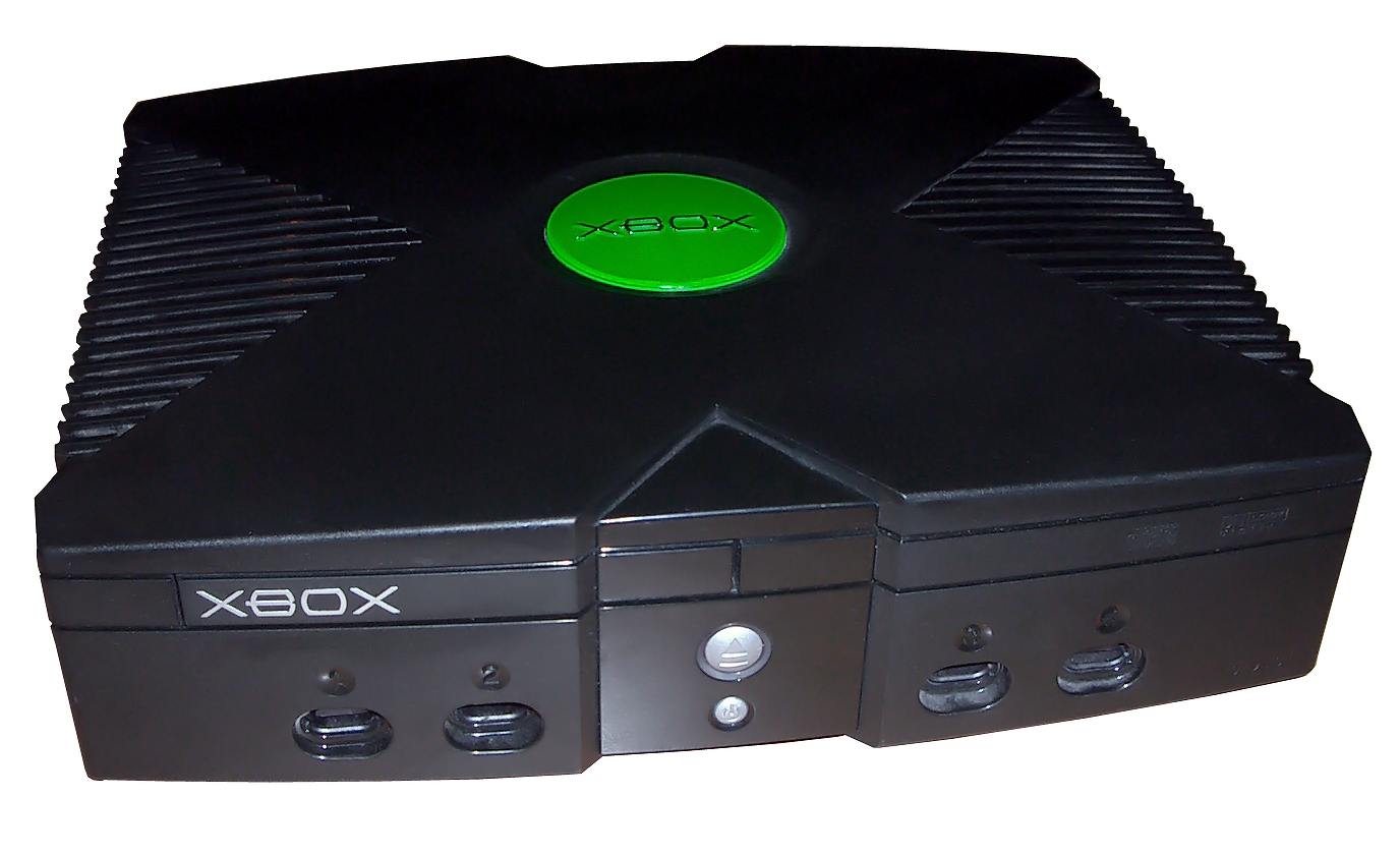 Modified picture of Image:Xbox consol.JPG